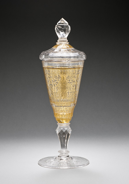 Bohemia (now Czech Republic), circa 1730-1750 Furnishings; Serviceware Glass, gold leaf Gift of Varya and Hans Cohn (M.82.124.24a-b) Decorative Arts and Design Currently on public view: Hammer Building, floor 3